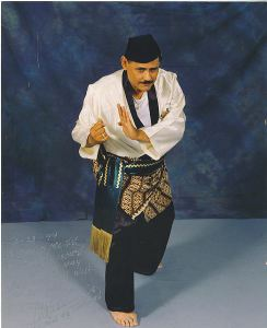 Pendekar